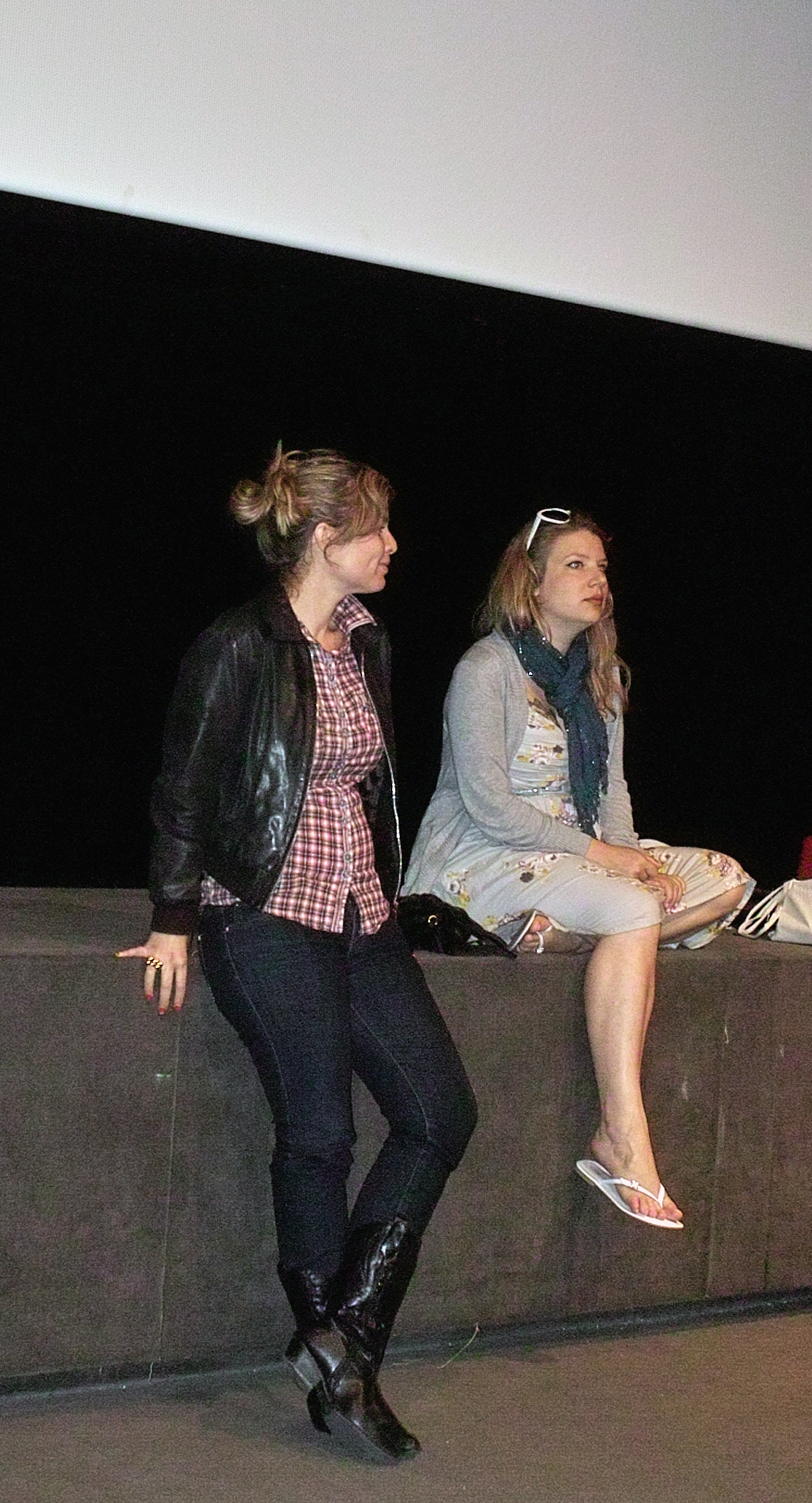 Émilie Jouvet (left) and Wendy Delorme (right).